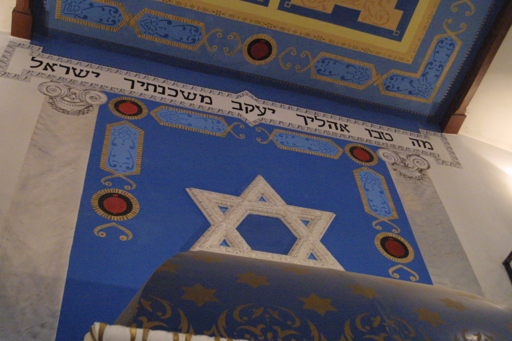 Reicher Synagogue in Łódź, Poland.